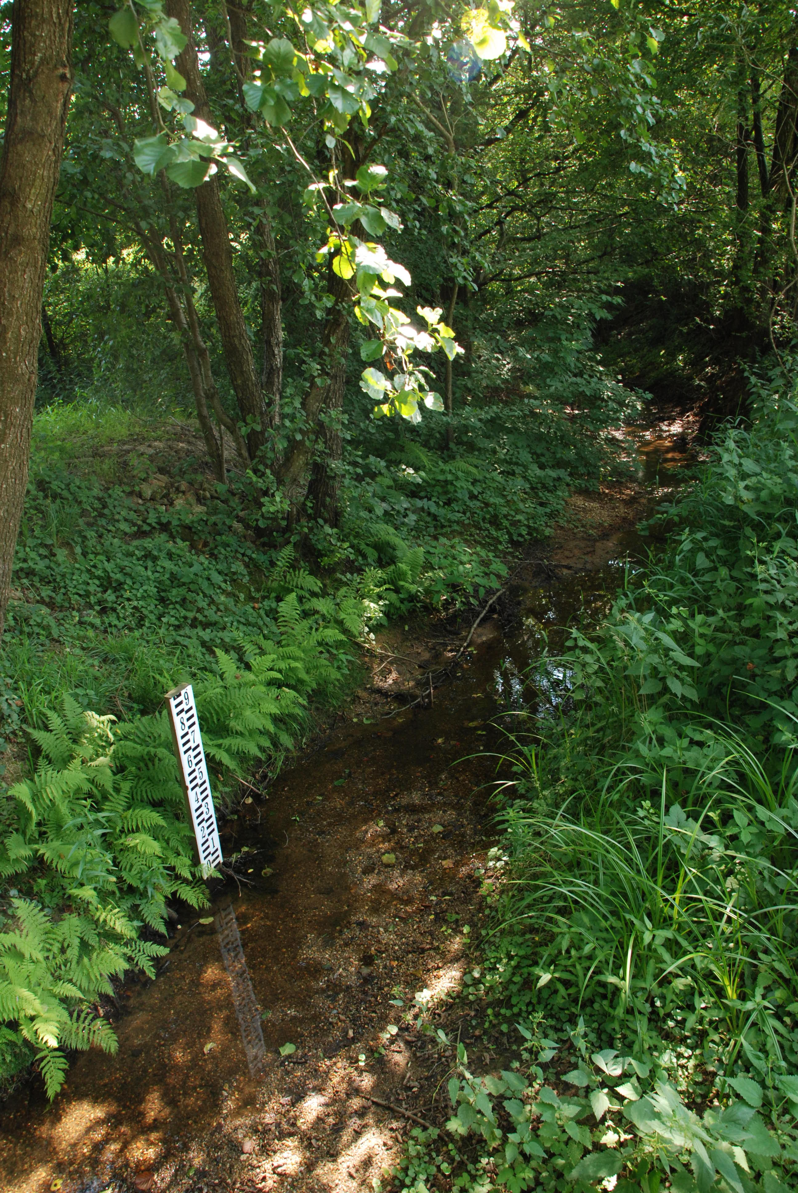 Kobilje Creek in Selo (the Municipality of Moravske Toplice) in the second half of July.